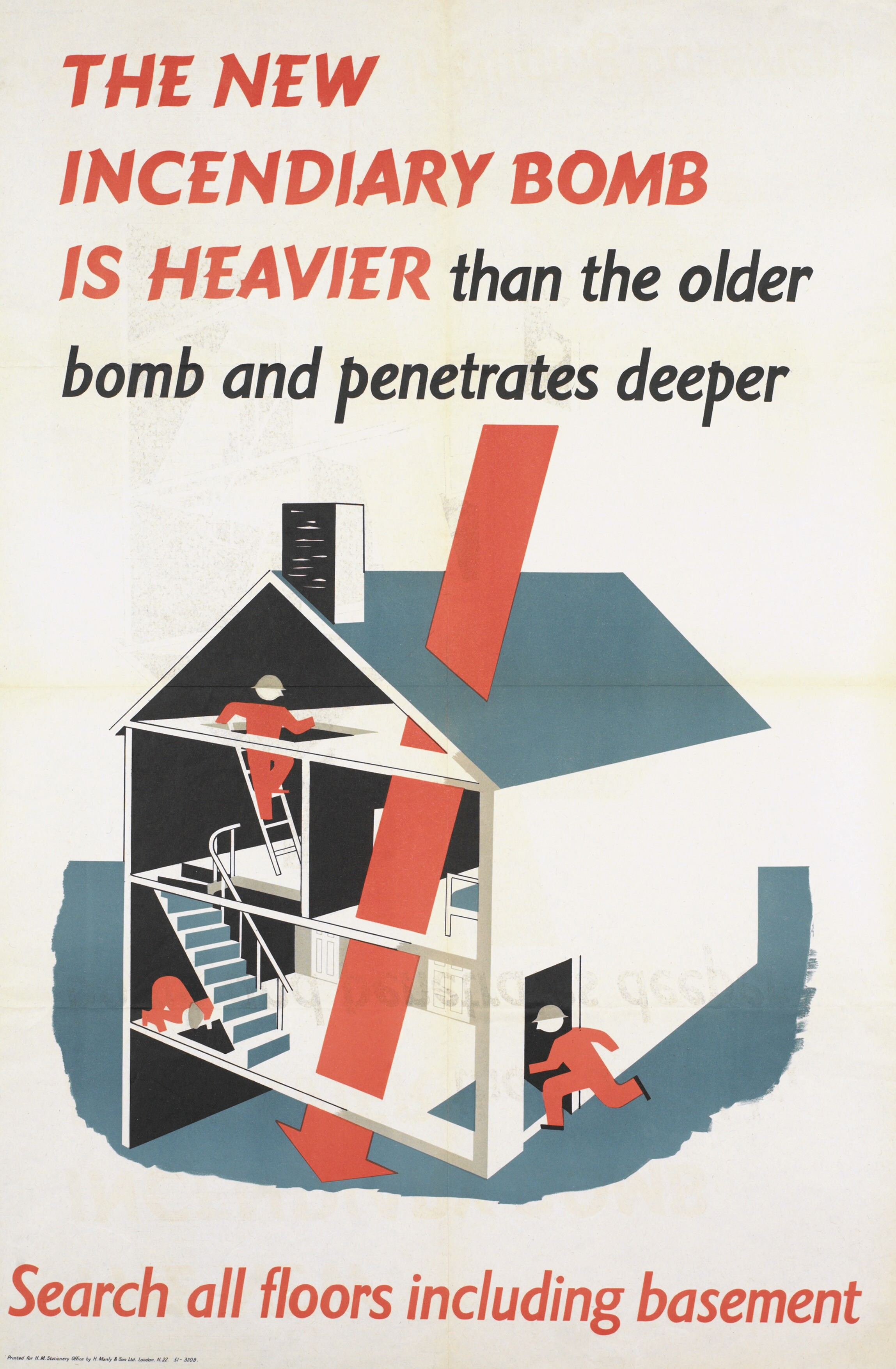 The New Incendiary Bomb is Heavier whole: the image occupies the majority of the lower two-thirds. The title is separate and positioned in the upper quarter, in orange. The text is positioned in the upper third, in black, and across the bottom edge, in orange. All set against a white background. image: a stylised depiction of a house with one wall removed, allowing the viewer to see inside. Three men wearing helmets search the house for incendiary bombs. A large orange arrow indicates the possible path of an incendiary bomb, passing through the roof and each storey of the house and into the basement. text: THE NEW INCENDIARY BOMB IS HEAVIER than the older bomb and penetrates deeper Search all floors including basement Printed for H.M. Stationery Office by H. Manly and Son Ltd. London. N.22. 51-3209.